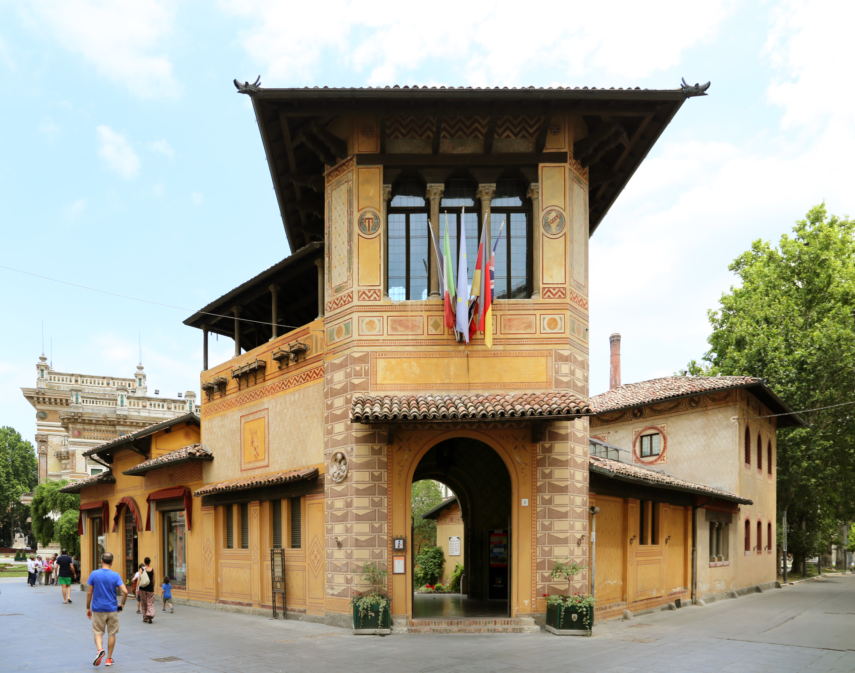 Buildings in Salsomaggiore Terme